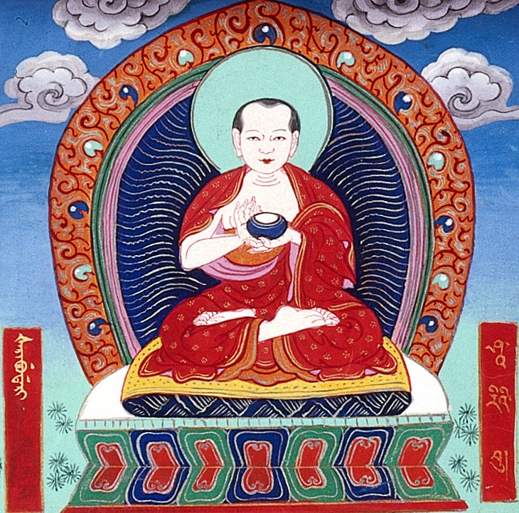 The inside top cover of a volume of the Kanjur in Manchu translation printed at the instigation of the Ch'ien Lung Emperor (r. 1736-96). (Quin Central panel is surrounded by yellow silk and is protected by three layers of silk. Asian Collection